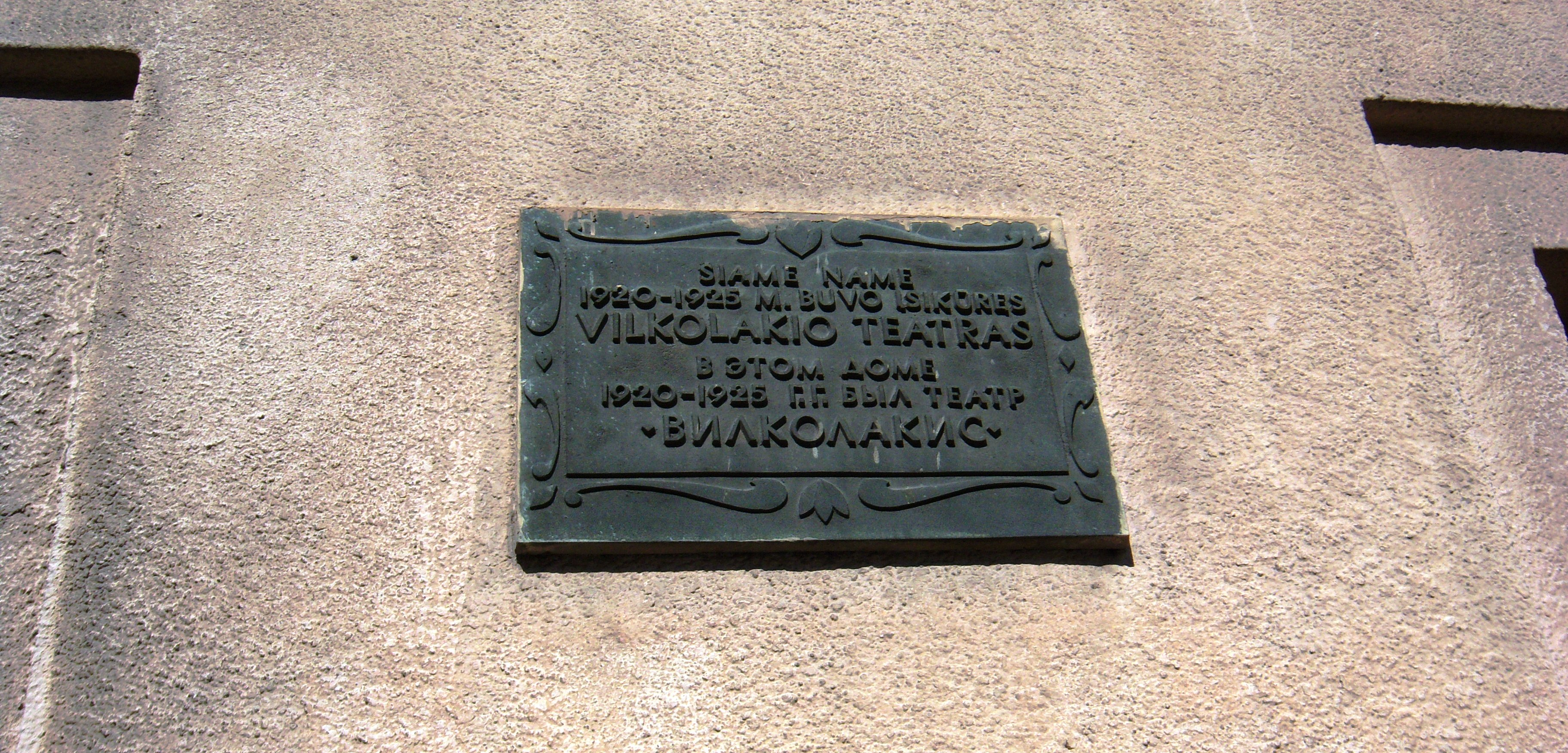 Memorial plaque to Vilkolakis Theatre on Maironio Street 11, Kaunas, Lithuania